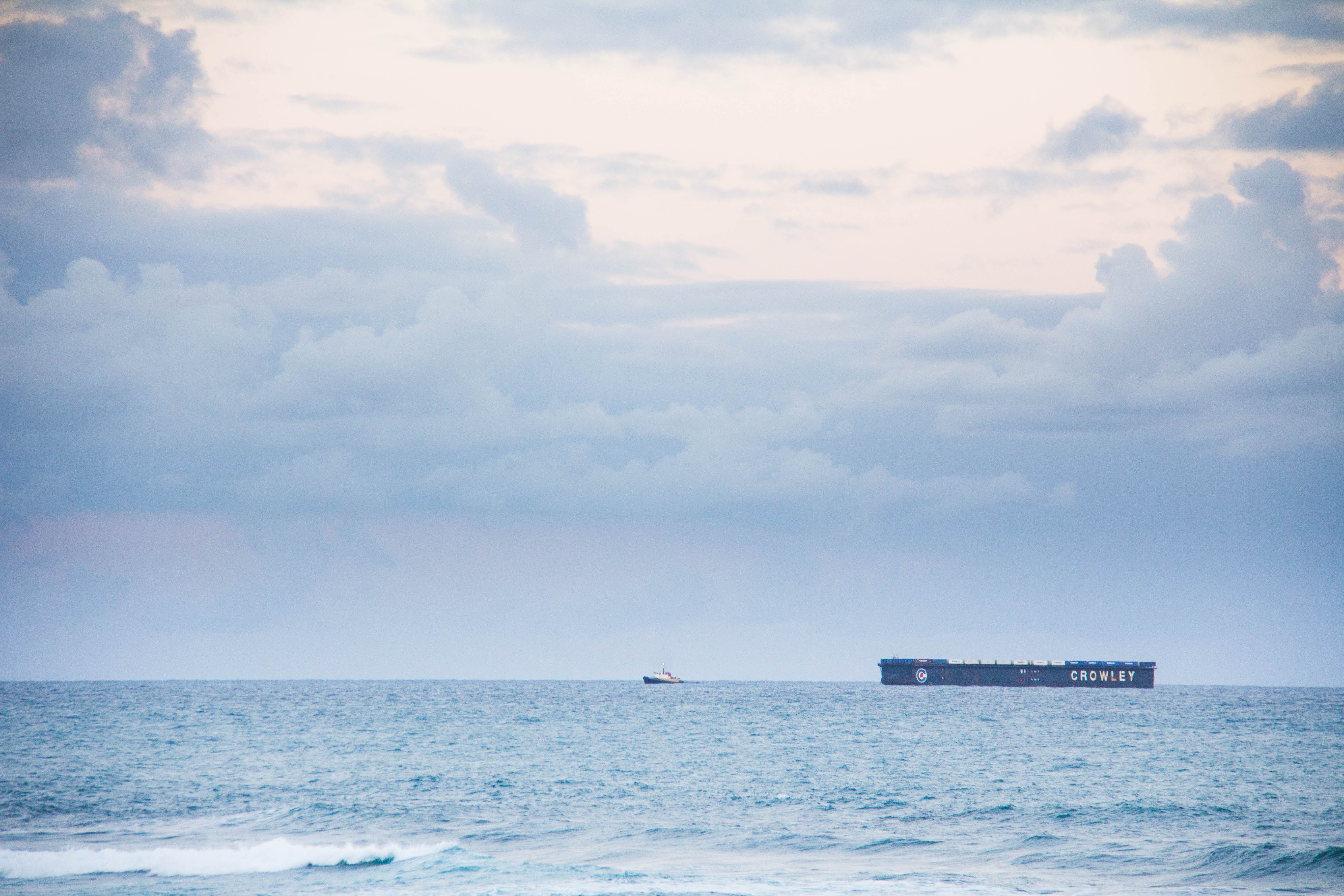 Crowley Maritime ship seen from Puerto Rico shores